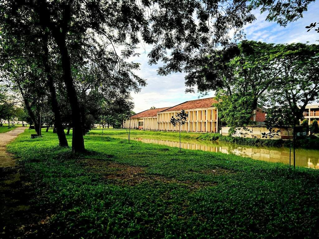 Prof. Dr. Yoshio Yamada Library Building for Bangabandhu Sheikh Mujibur Rahman Agricultural University.